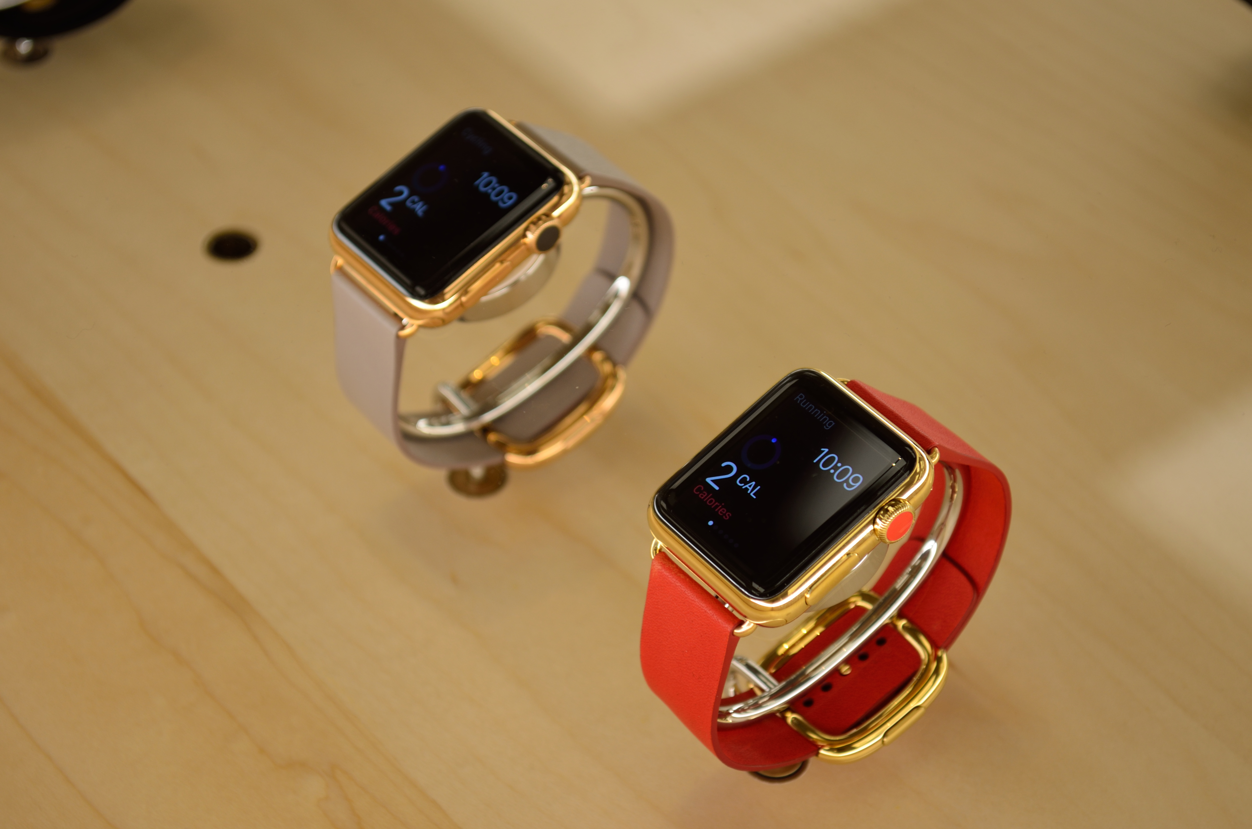 Apple Watch on display at an Apple Store.